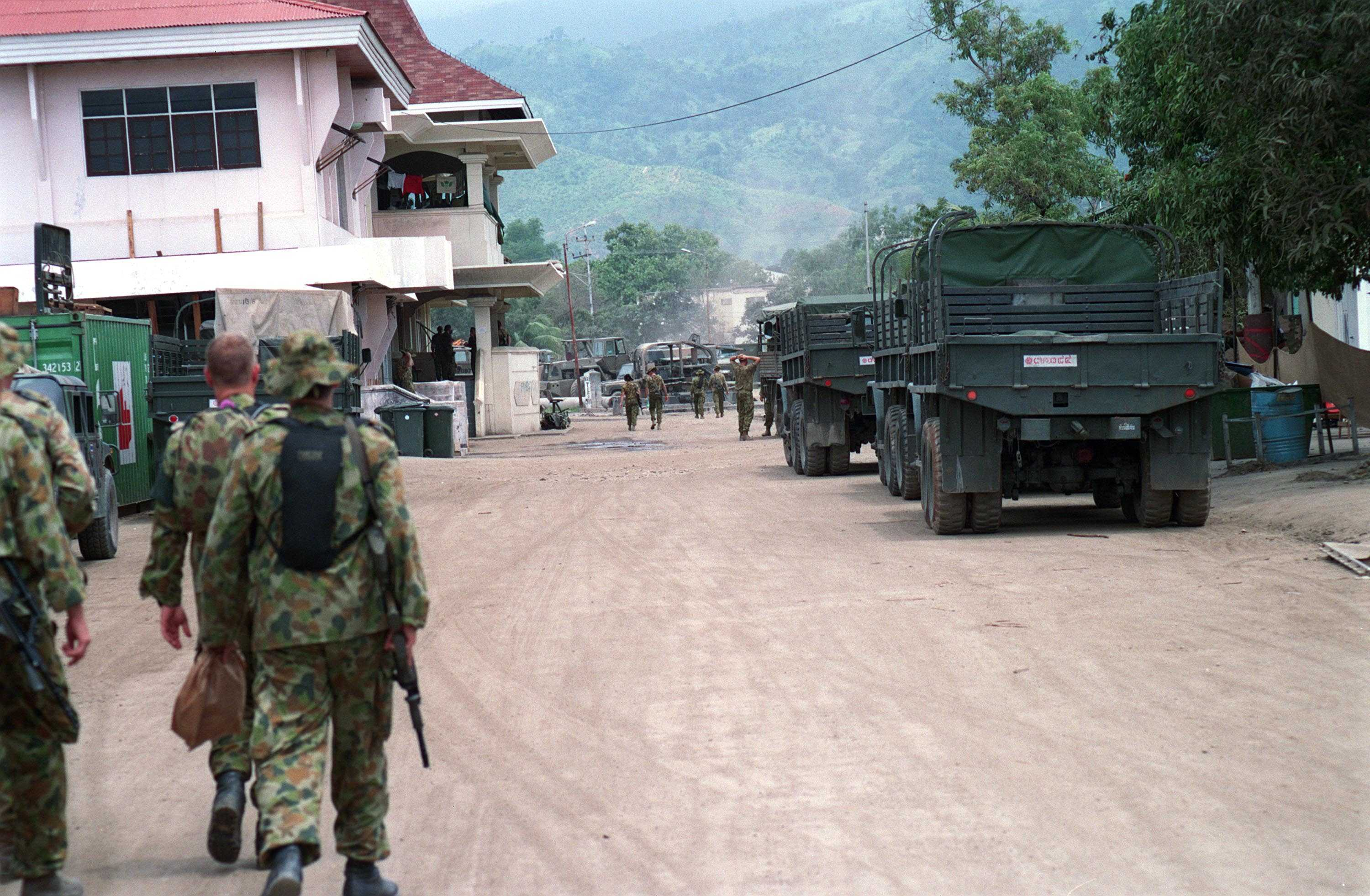 USS Blue Ridge, 12 February 2000, Dili, East Timor--Australian members of International Forces East Timor (INTERFET), walk towards headquarters.